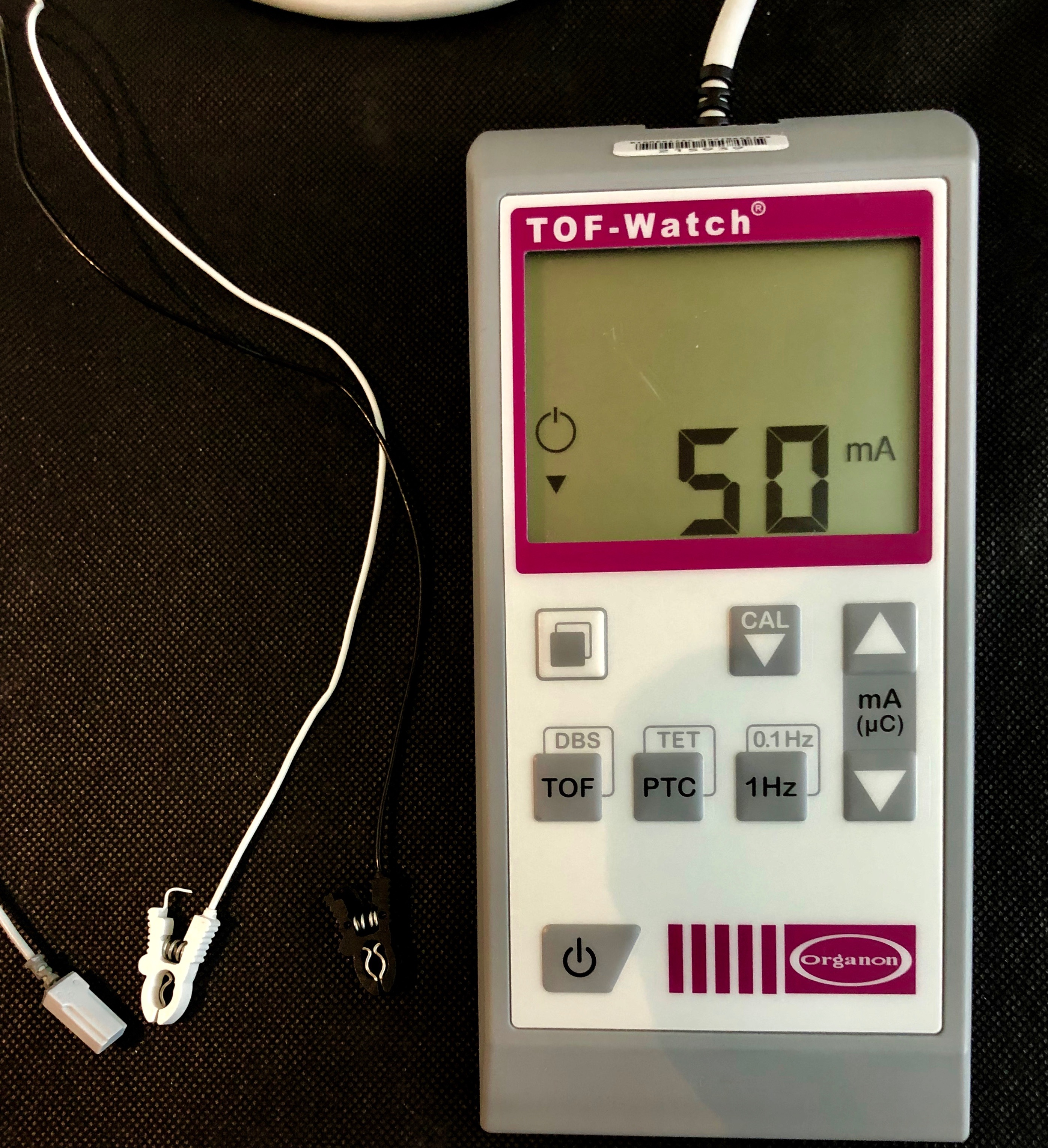 The TOF-Watch is an acceleromographic quantitative neuromuscular function monitor. It may be used to assess the effects of muscle relaxants when used as part of general anaesthesia. The black negative stimulating electrode is placed over the distal part of the ulnar nerve and the white positive electrode 3 cm proximally over the same nerve. A piezoelectric crystal is placed on the thumb and acceleration of the crystal caused by contraction of the muscle when the nerve is stimulated generates a voltage that is proportional to the force of the muscle contraction. Force = mass X acceleration.Quantitative neuromuscular monitors can assess the depth of neuromuscular blockade and exclude the residual effects of muscle relaxants when used in combination with general anaesthesia.